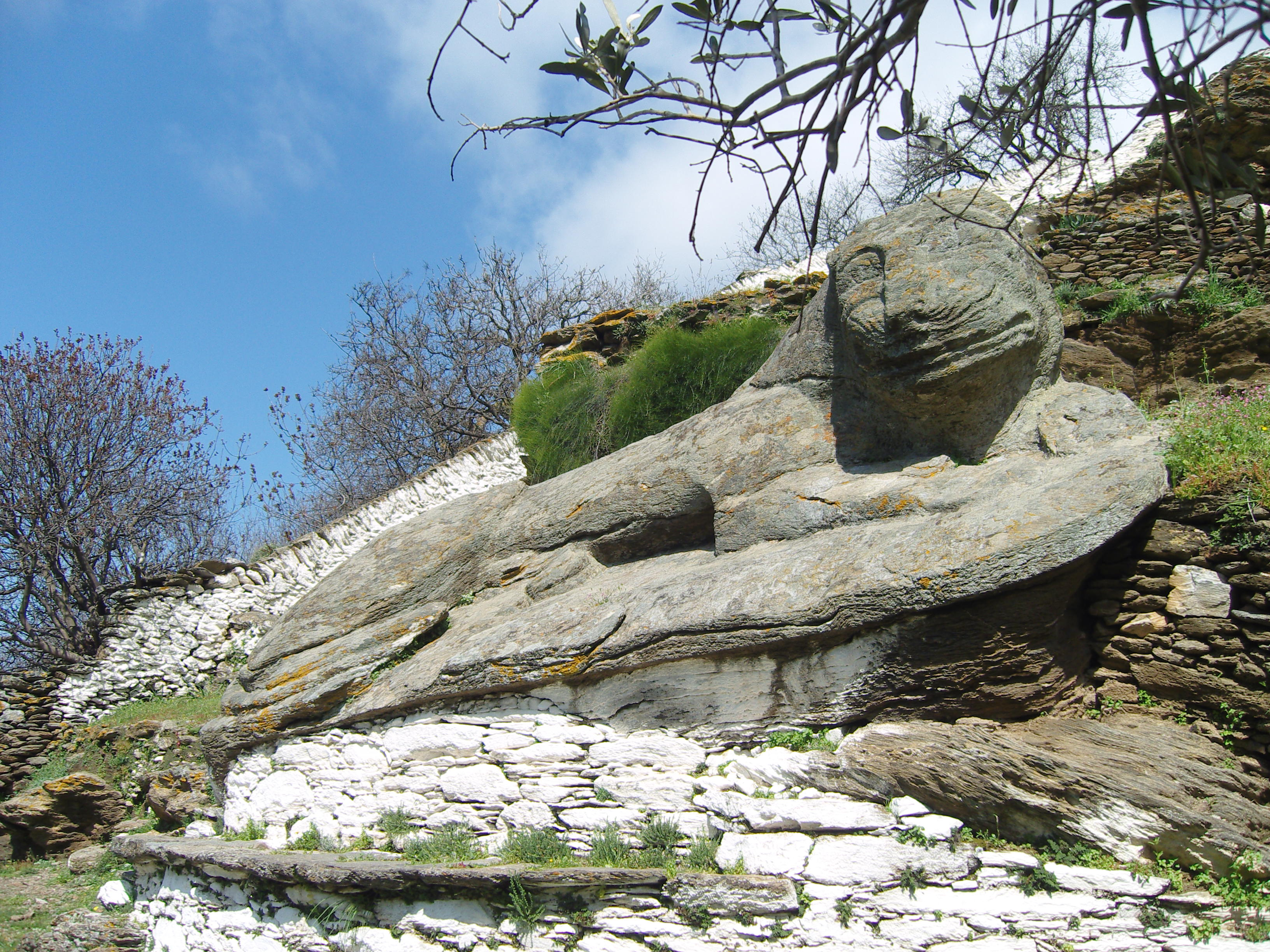 Archaïc statue of a lion, Ioulida, island of Kea